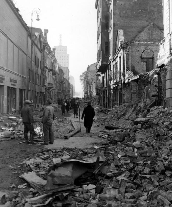 Warsaw during World War II